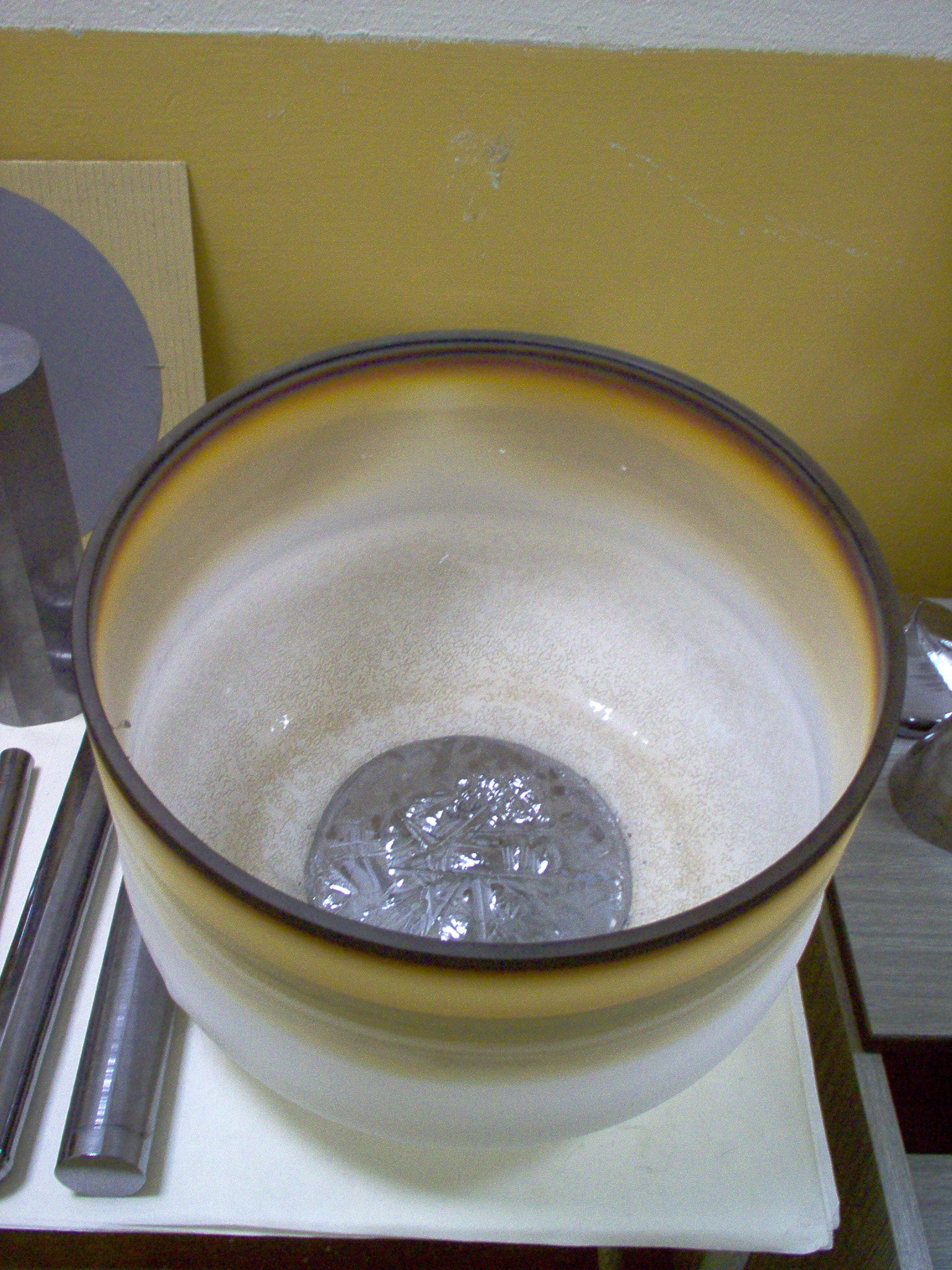 Title: Crucible used in Czochralski method Desc: This crucible was used to pull a silicon crystal by Czochralski method. Generally, the crucible breaks at the end of the process. Some amount of silicon rests always on the bottom after the process. We can also observe a color modification of the crucible and a texture on the crucible walls. Author: Twisp Date: 25.08.2005